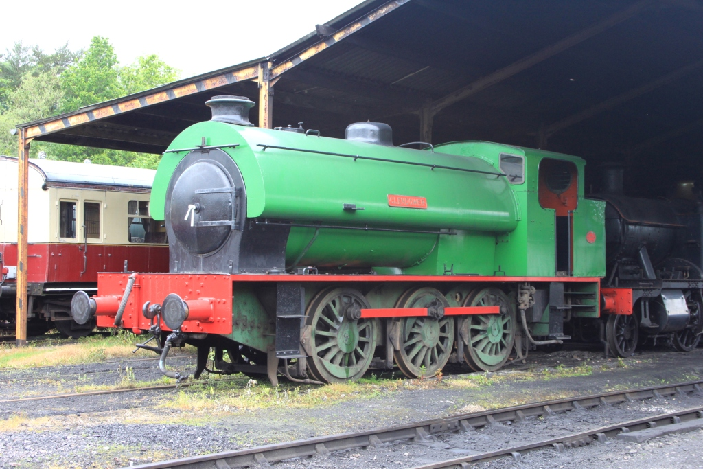 Hunslet 'Austerity' 0-6-0ST Glendower (works number 3810 of 1954) outside the engine shed at Buckfastleigh on the South Devon Railway.